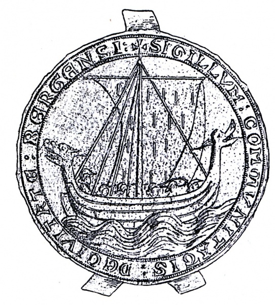 City seal of Bergen in 1299